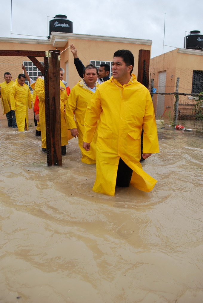 Impact of Hurricane Felix